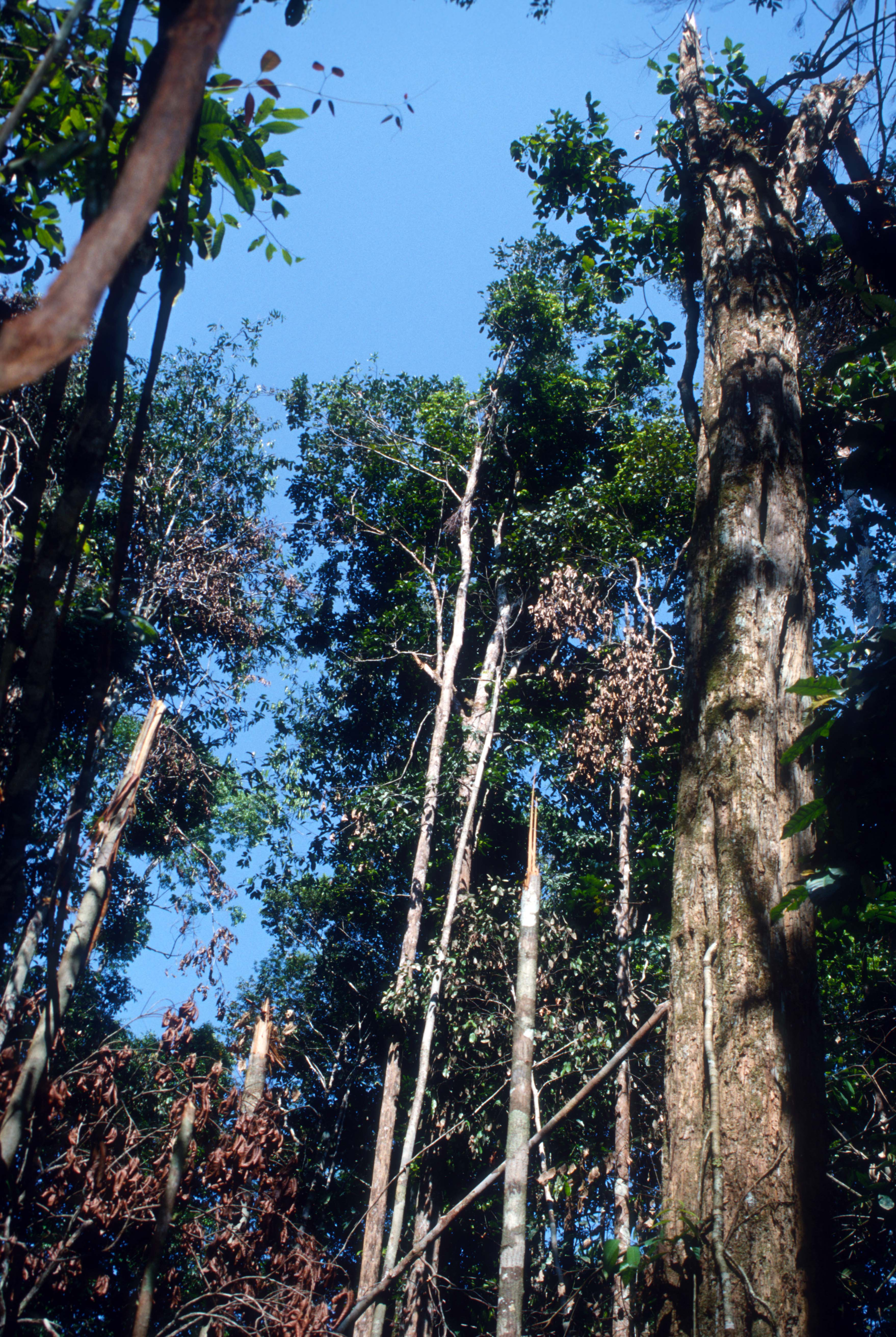 Broken trees create gaps in the central Amazon. Photo taken by Emilio Bruna